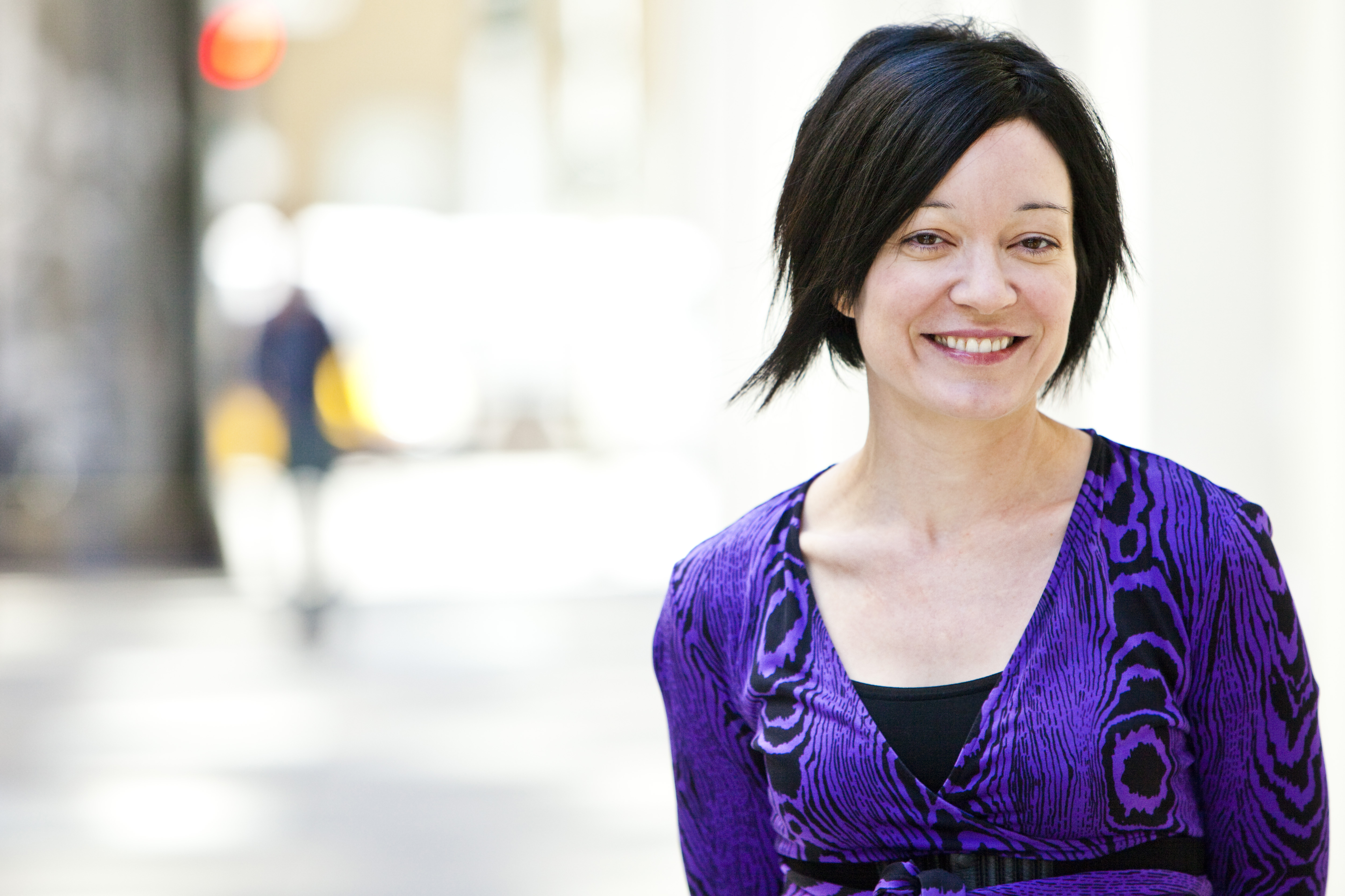 Staff Portrait of Sue Gardner, Executive Director at the Wikimedia Foundation.